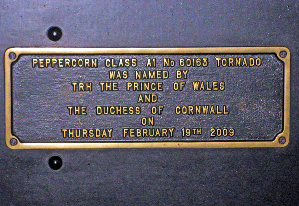 The plate affixed to steam locomotive 60163 Tornado that commemorates its official naming ceremony. It's been pictured while Tornado was at Carlisle station, half way through the return leg of The Caledonian Tornado tour, which was a run from Crewe to Glasgow and back.